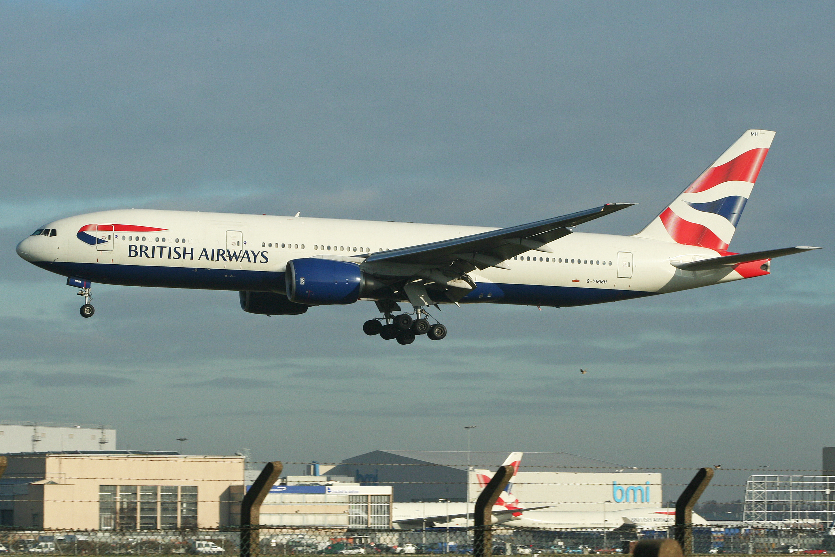 msn 30309, l/n 303. Arriving on flight BA008. London Heathrow. 26-2-2012.